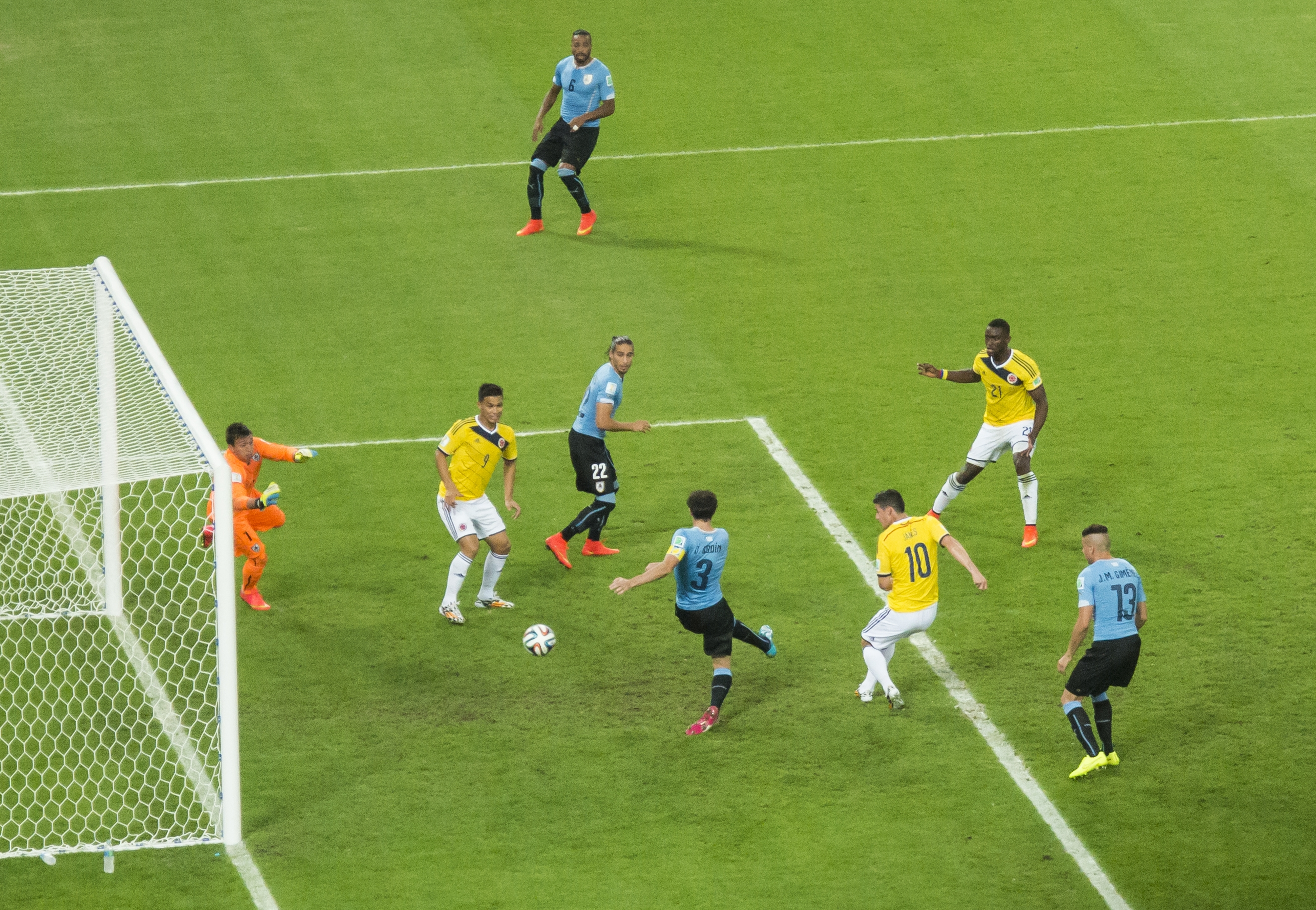 James Rodríguez colombia national football team world cup 2014 rio de janeiro uruguay round of 16